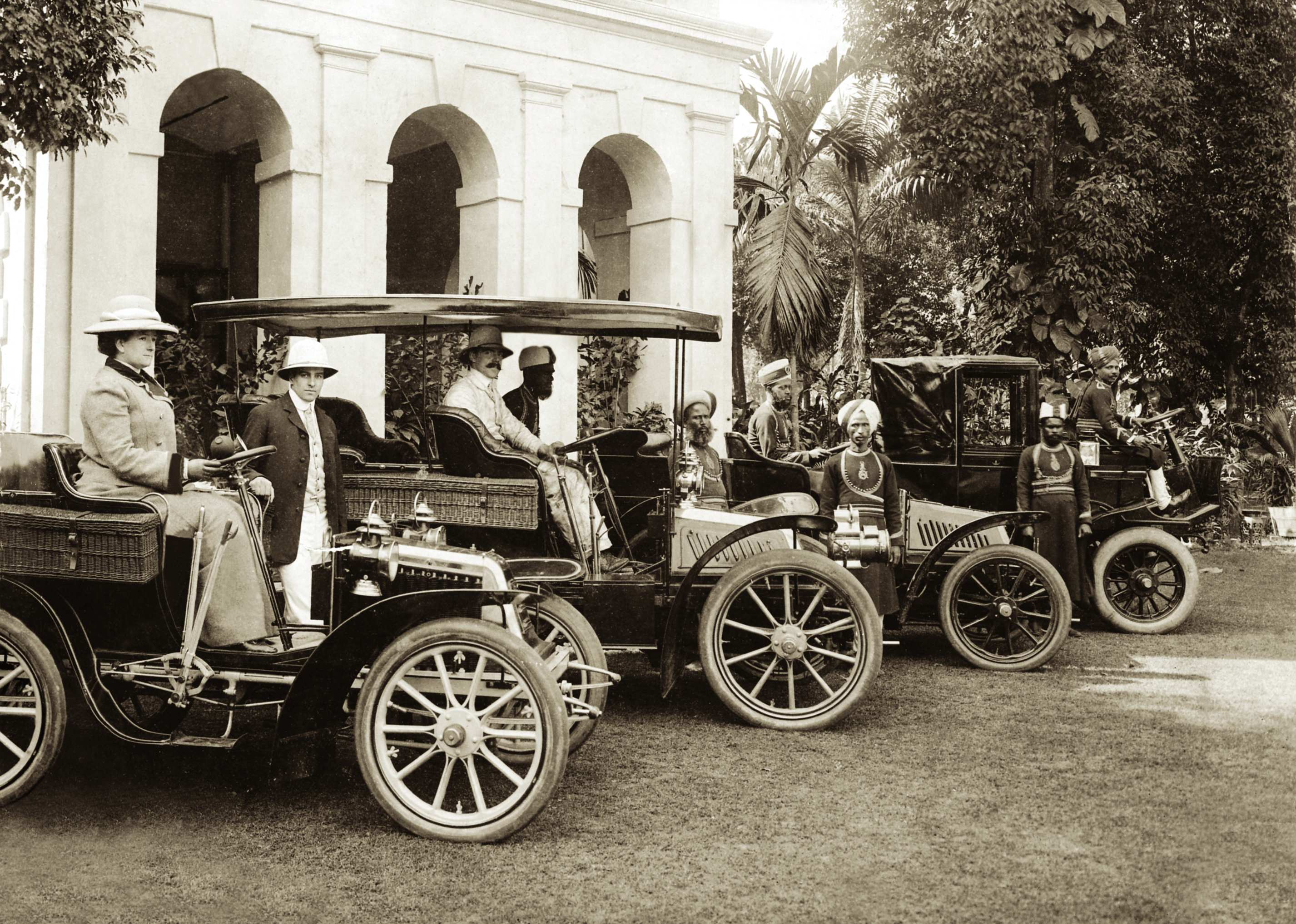 Lord Curzon Governor General and Viceroy of India at Shahbag Dhaka on a visit with Lady Curzon in fleet of Dechamp Tonneau (model 1902) cars. 1904.